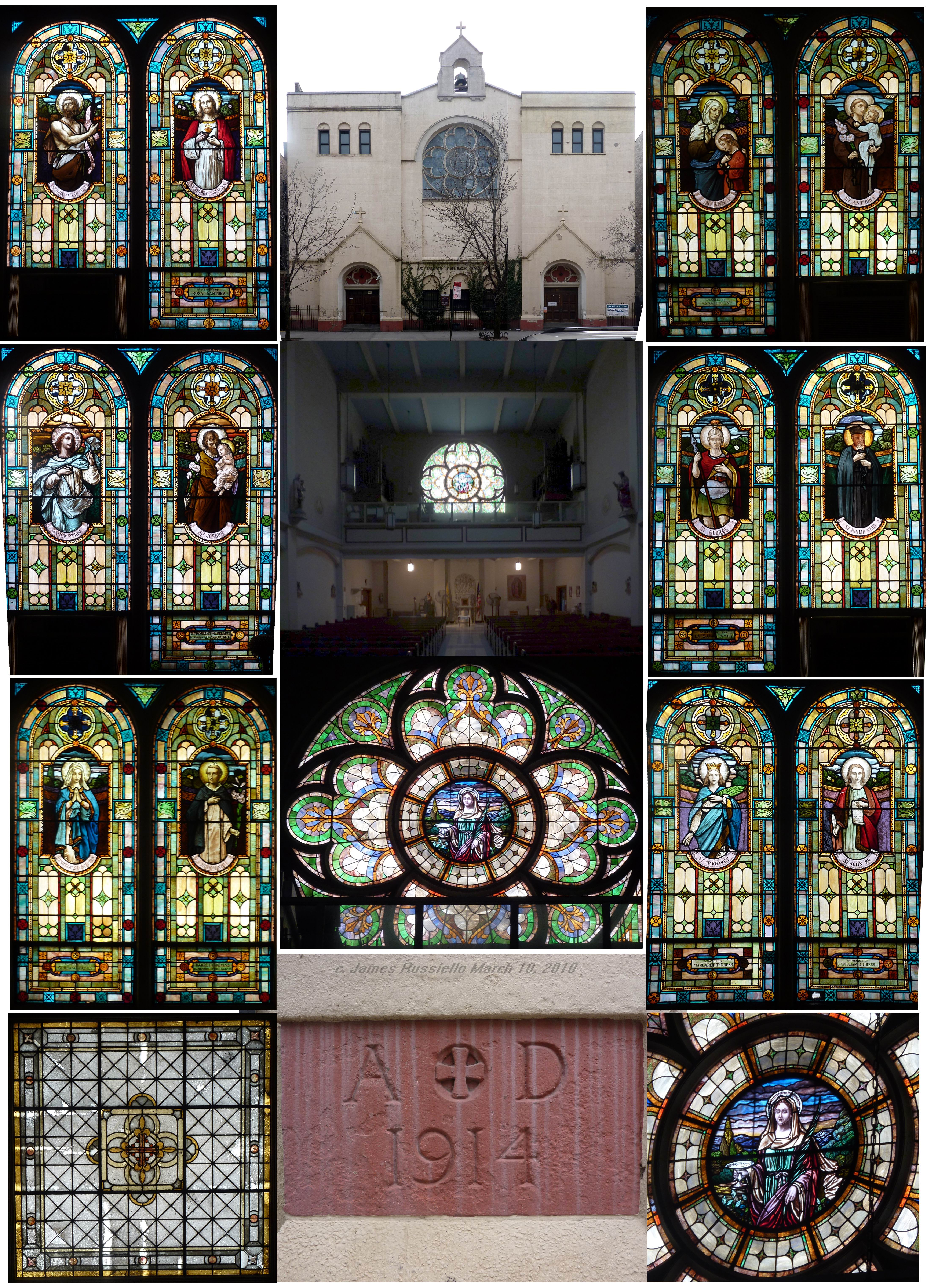 St. Lucy's Church, 338-342 104th Street, New York City, New York 10029